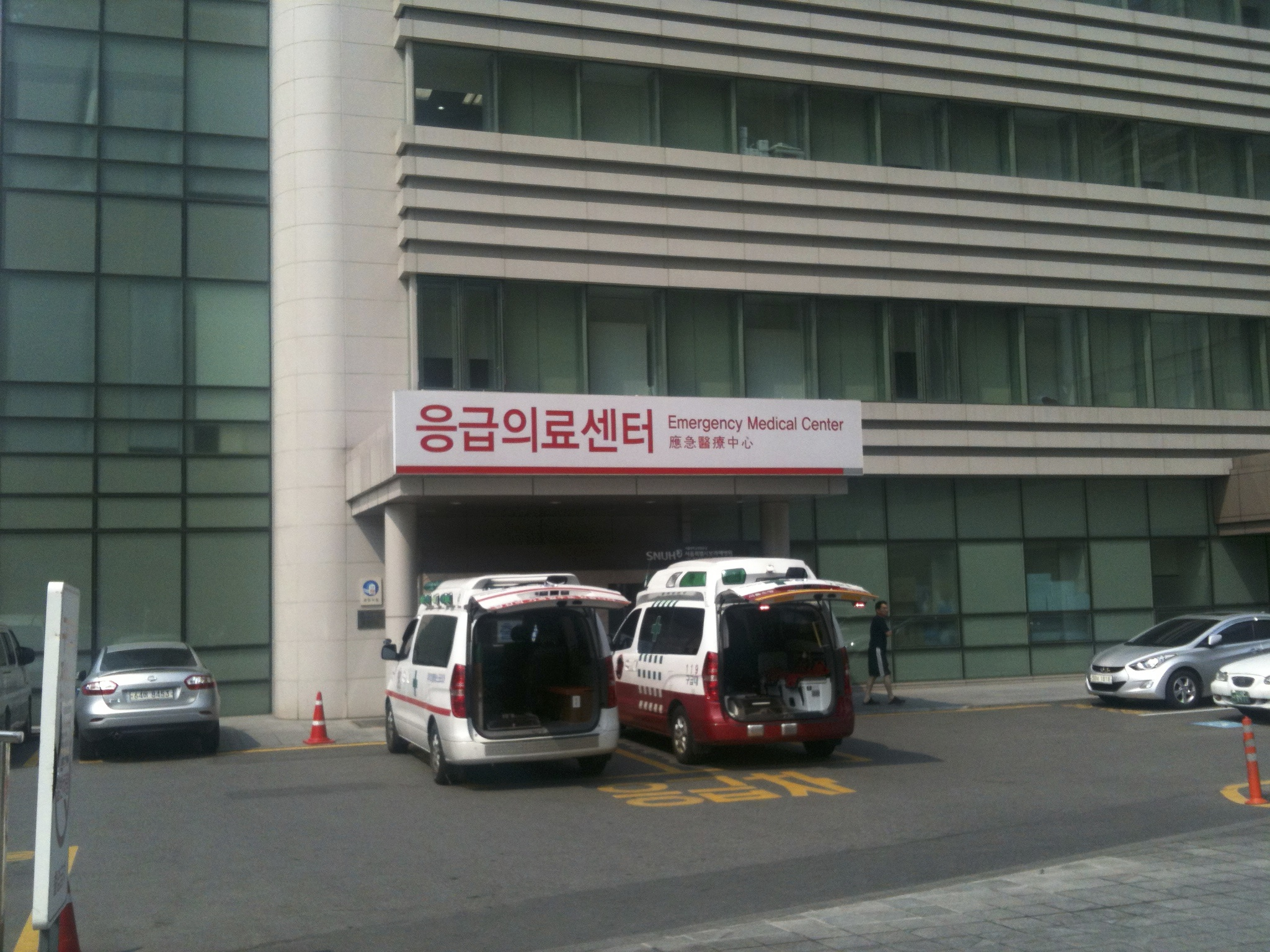 Emergency medical center of Seoul Metropolitan Boramae Medical Center. South Korea. 2013.5.6.